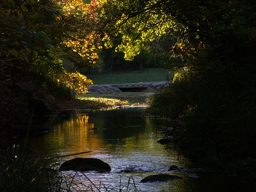 by Jason Daniel Brown